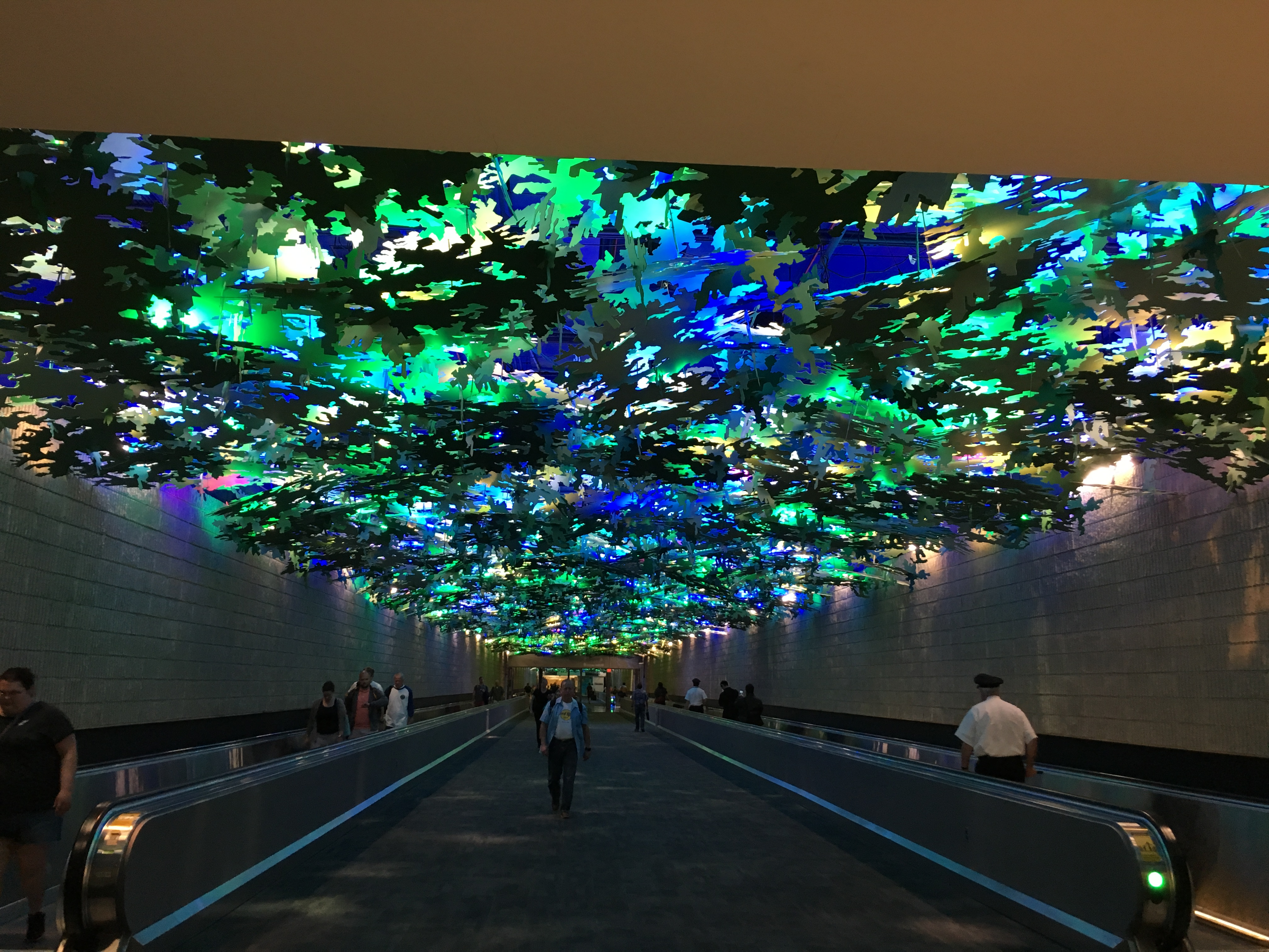 A forest themed moving hallway underneath the midfield concourses. Going from Concourse B to Concourse A.